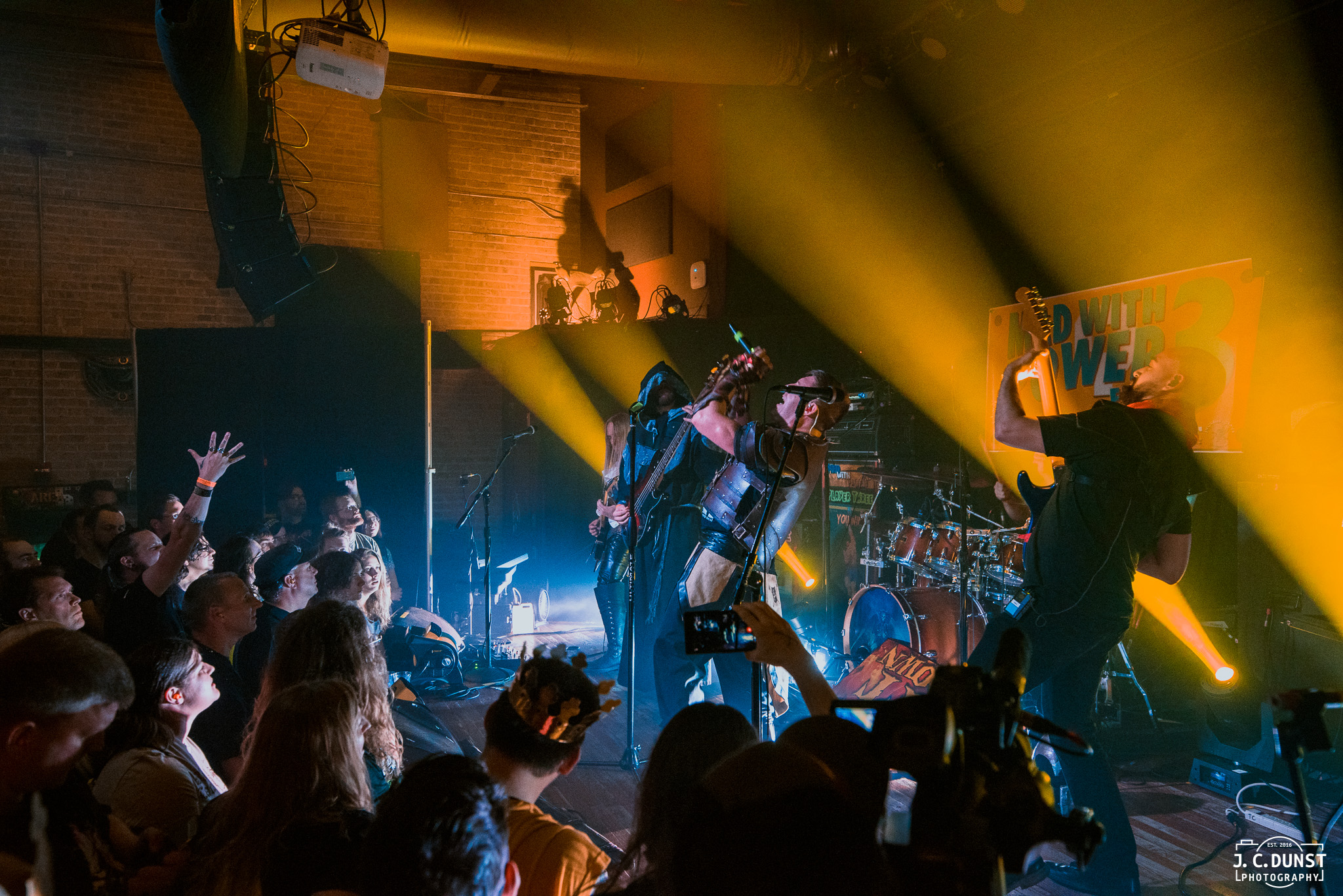 Lords of the Trident at Mad With Power Fest 2019 - photo by jcdunstphotography